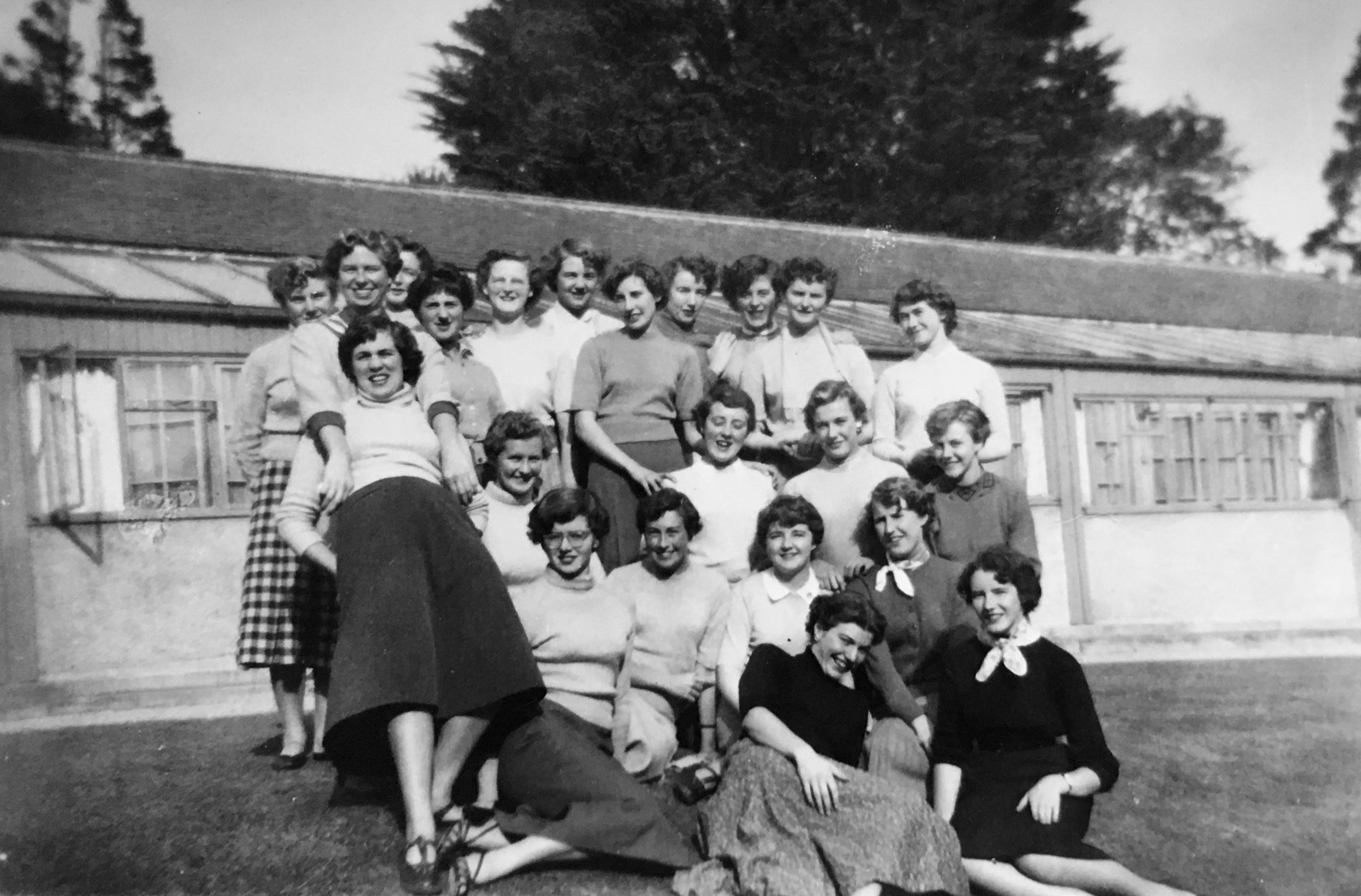 Dunfermline College of Physical Education students, photographed in Aberdeen in 1955.